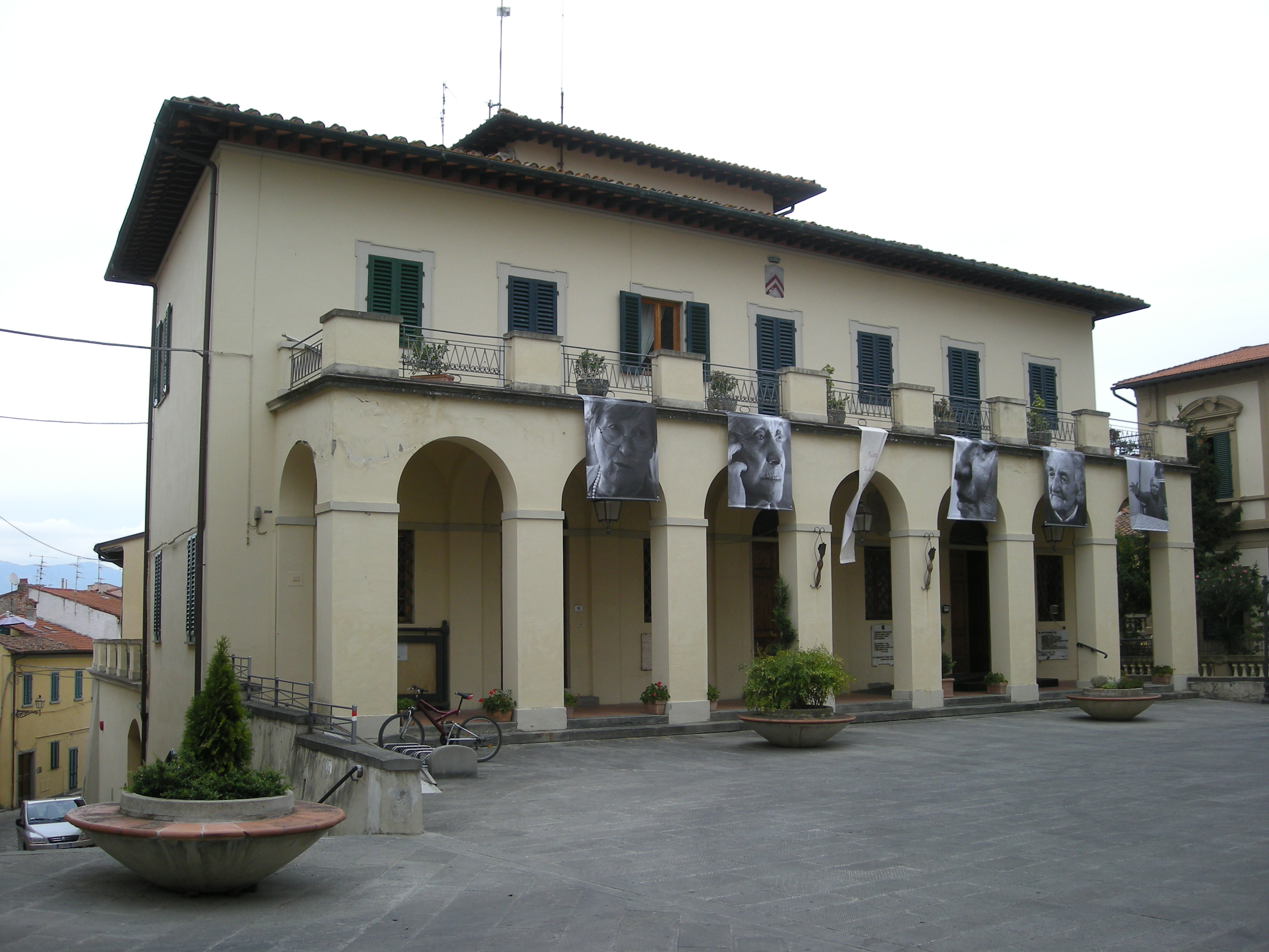 Lastra a Signa (Italy) - City hall